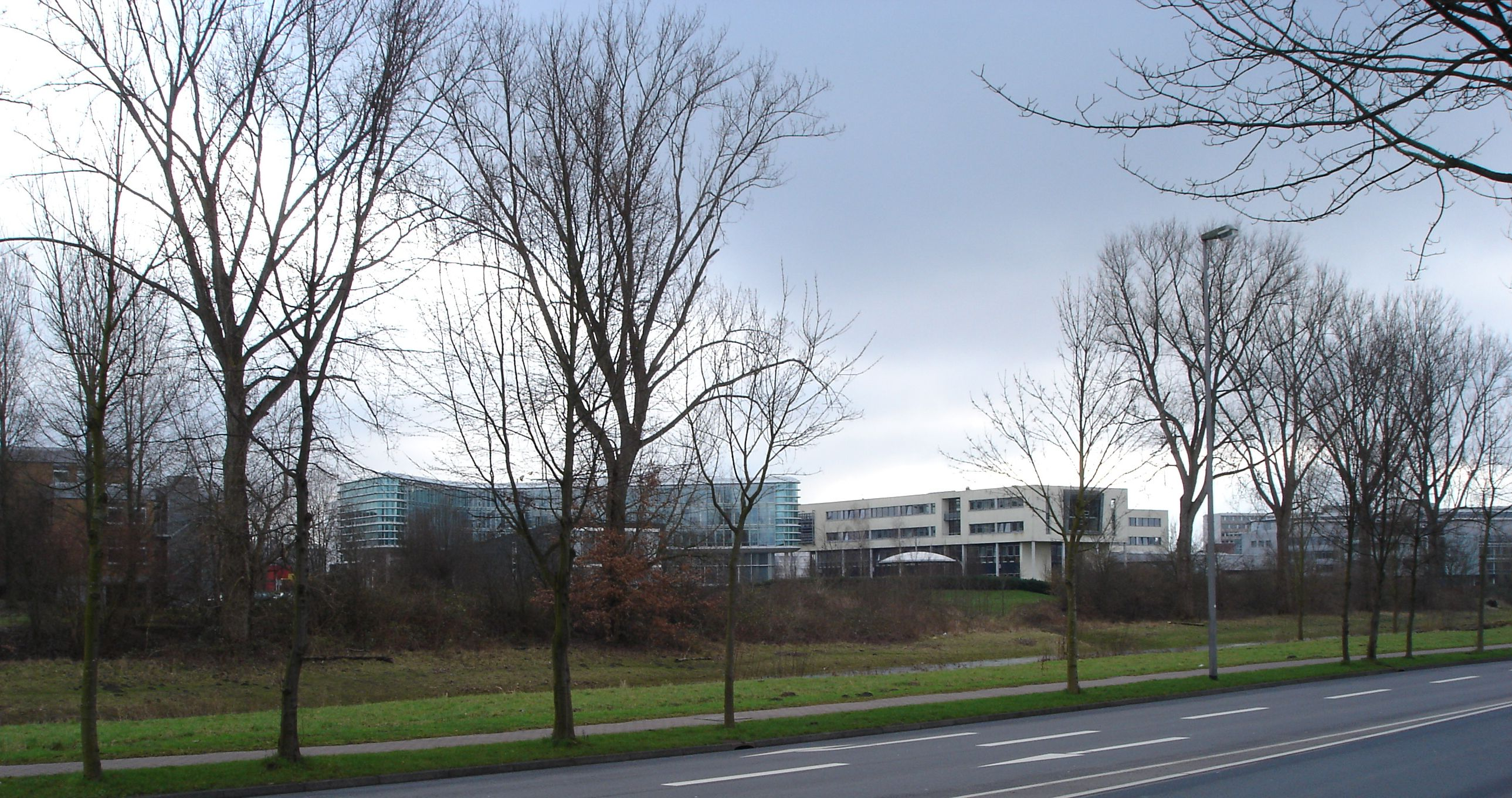 Panoramaview of Zentrum Nord, Münster, Germany